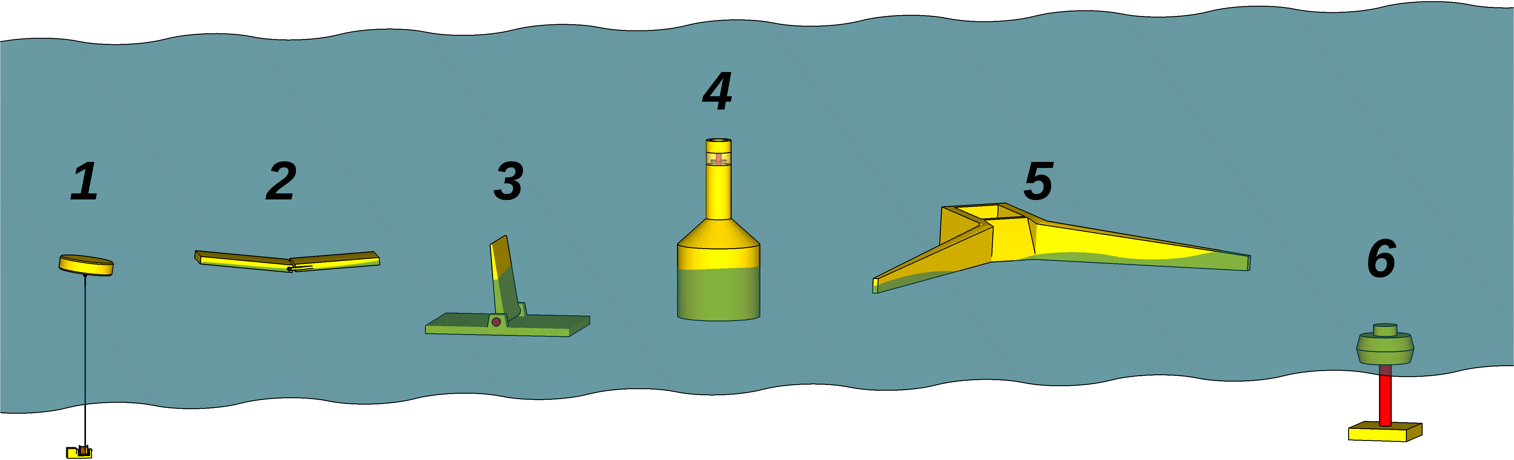 Generic Wave energy concepts